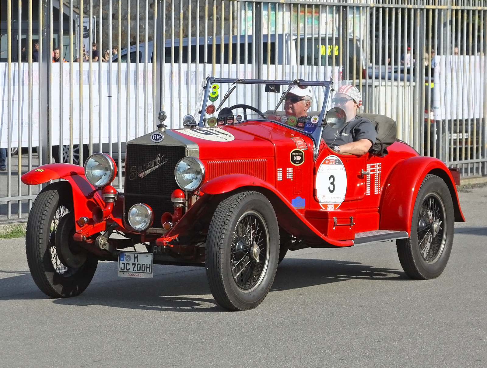 OM 665 SMM Superba 2.0 1927 at the Mille Miglia 2015